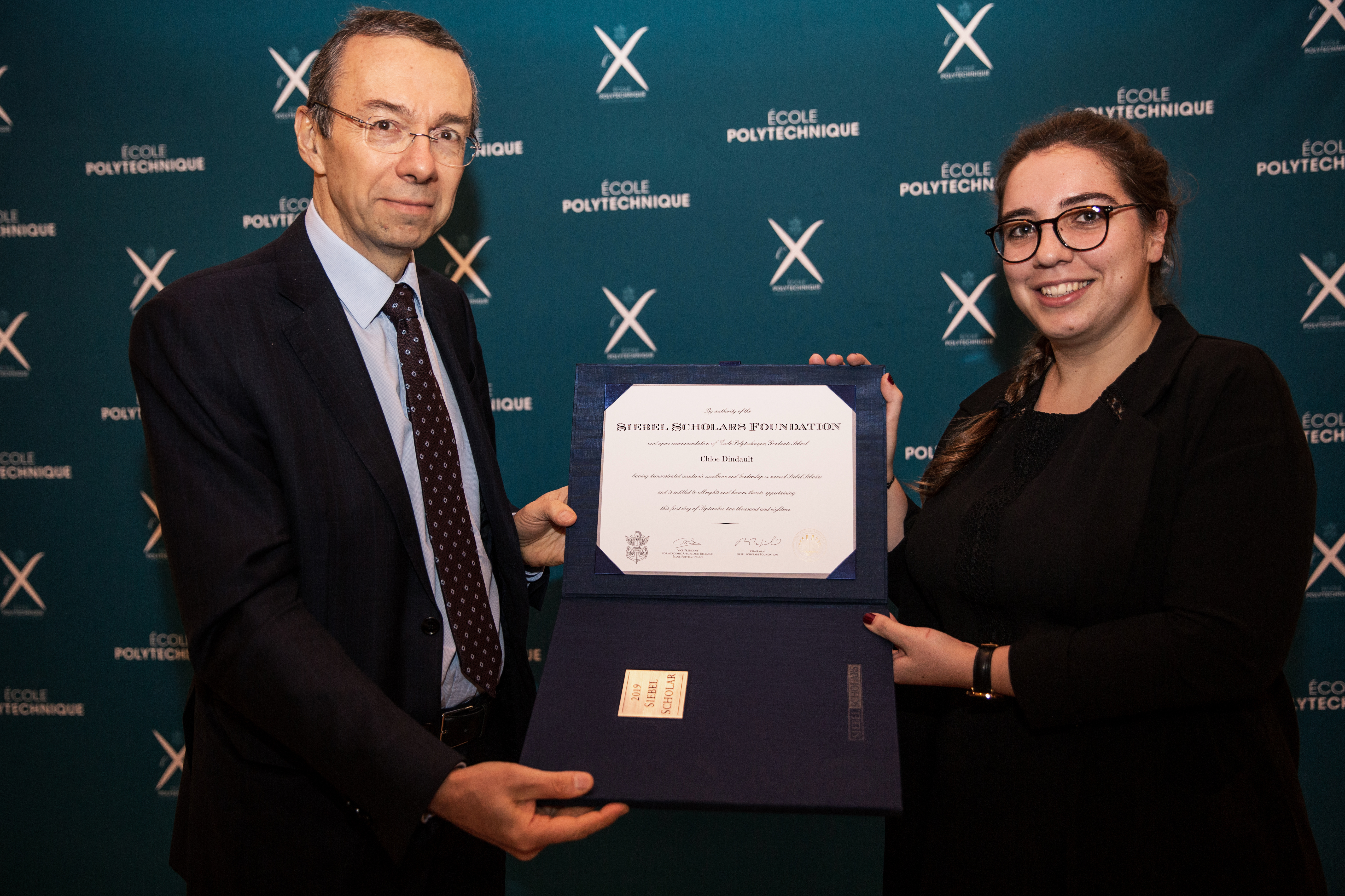 Remise du prix Siebel Scholars Foundation à Chloe Dindault doctorante au laboratoire LPICM par Éric Labaye, Président de l’École polytechnique Crédit photographique : © École polytechnique - J.Barande